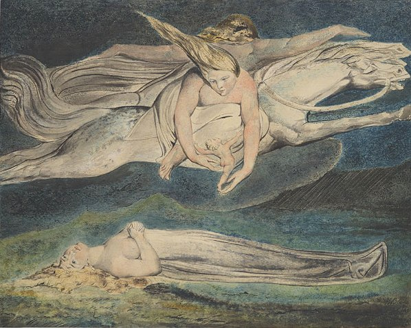 Metropolitan Museum of Art; print of Pity by William Blake